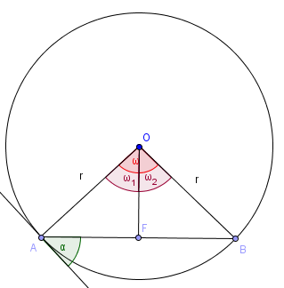 Inscribed angle case 4